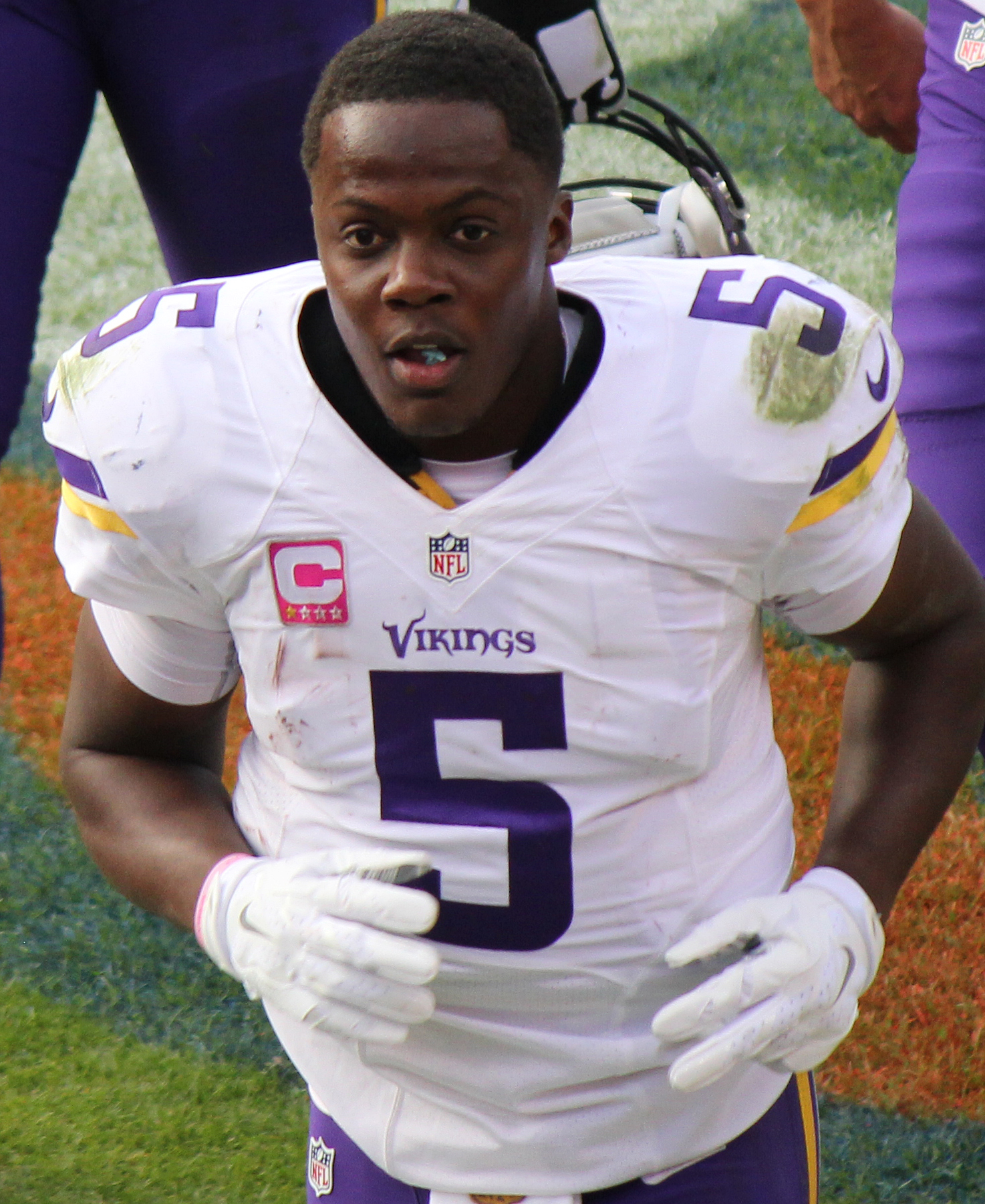 Teddy Bridgewater, a player on the National Football League.